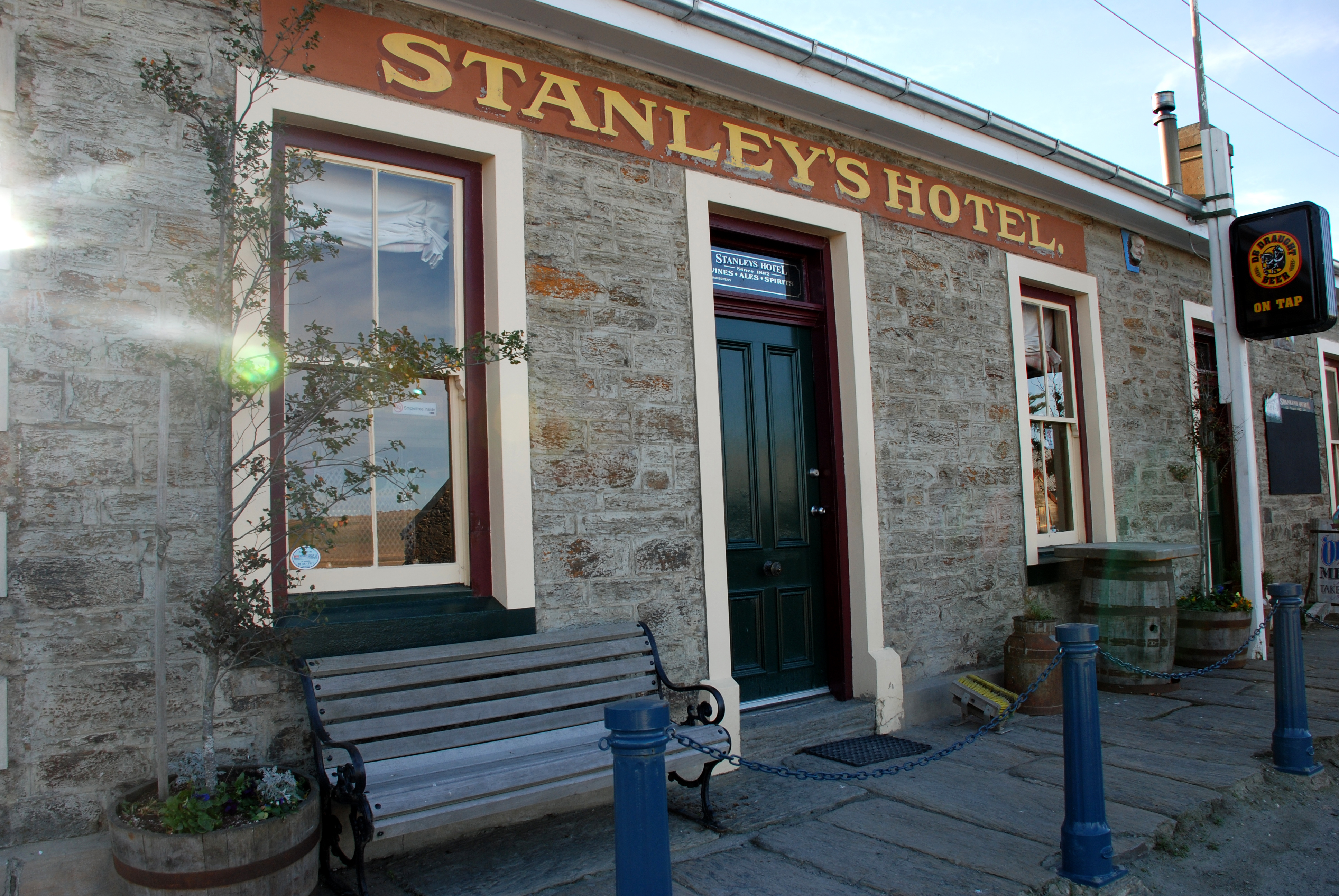 Stanley's Hotel, Macrae's Flat, Otago, New Zealand, May 2007